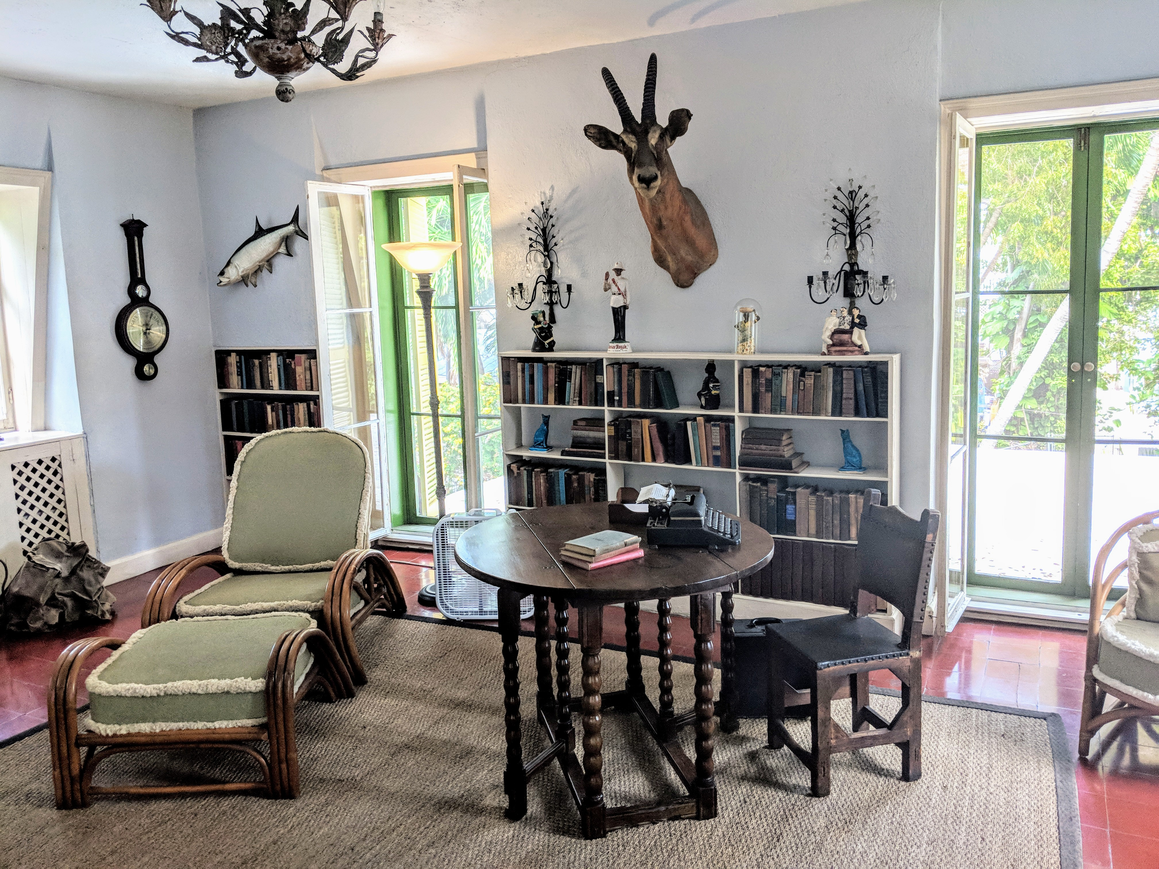 Ernest Hemingway's writing den at his home in Key West, Florida. Photo by Jim Heaphy.